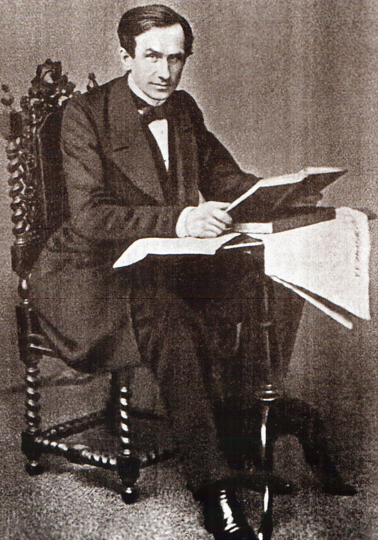 Constantine Constantinovich Grot (1815-1897)